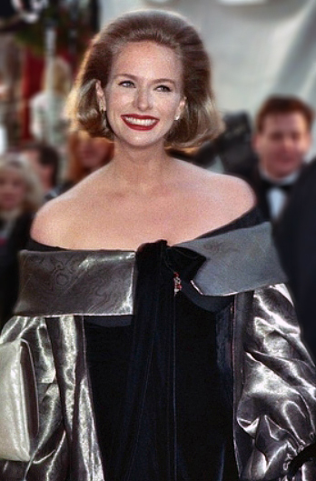 Donna Dixon on the red carpet at the 62nd Annual Academy Awards.